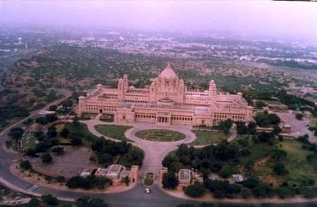 This picture is one of my own collections of Bird eye view of Umaid Bhawan Palace, Jodhpur, India /courtesy of KKComp/Jodmar.